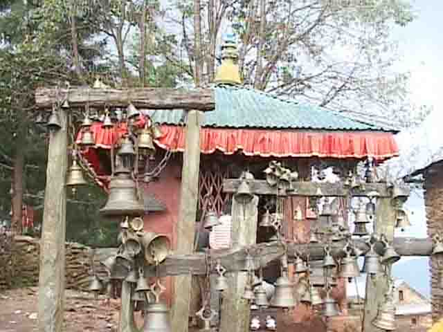 Khada Devi Temple situated in Ramechhap District.